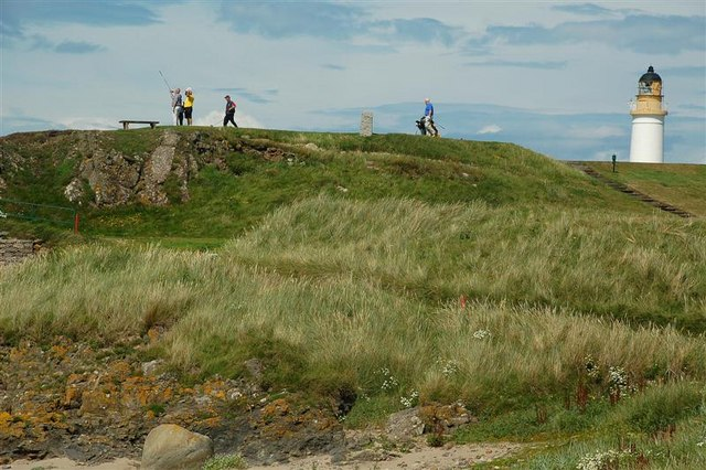 Turnberry Golfers